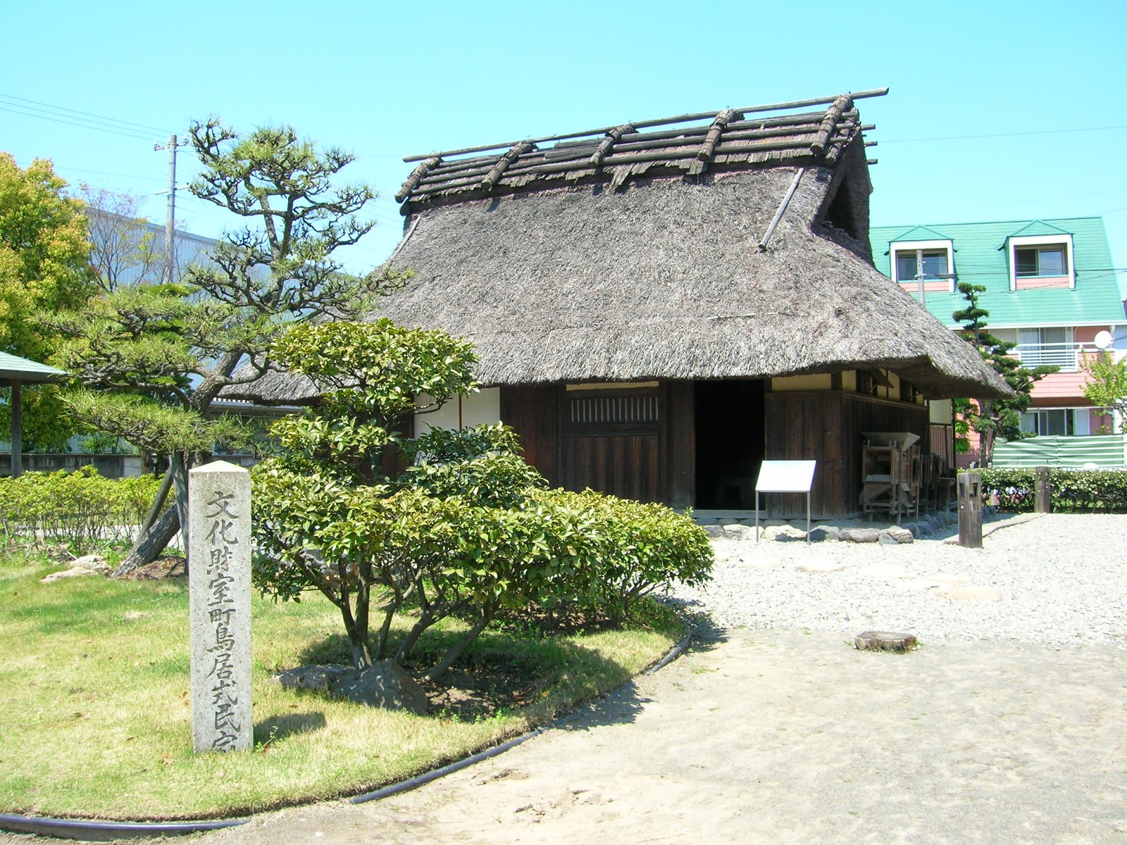 Torii-date minka (Torii type column's minka), build of Edo period. Loc: Iwakura city historic park, Iwakura city, Aichi Prefecture, Japan. 鳥居建民家 撮影場所 愛知県岩倉市・岩倉市史跡公園